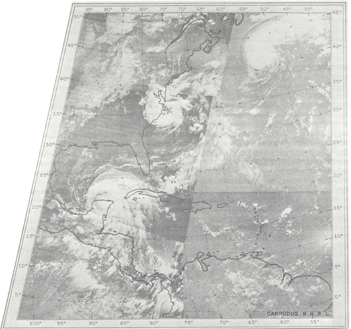 A composite satellite image on September 17, 1967 depicting Hurricanes Beulah, Chloe, and Doria.